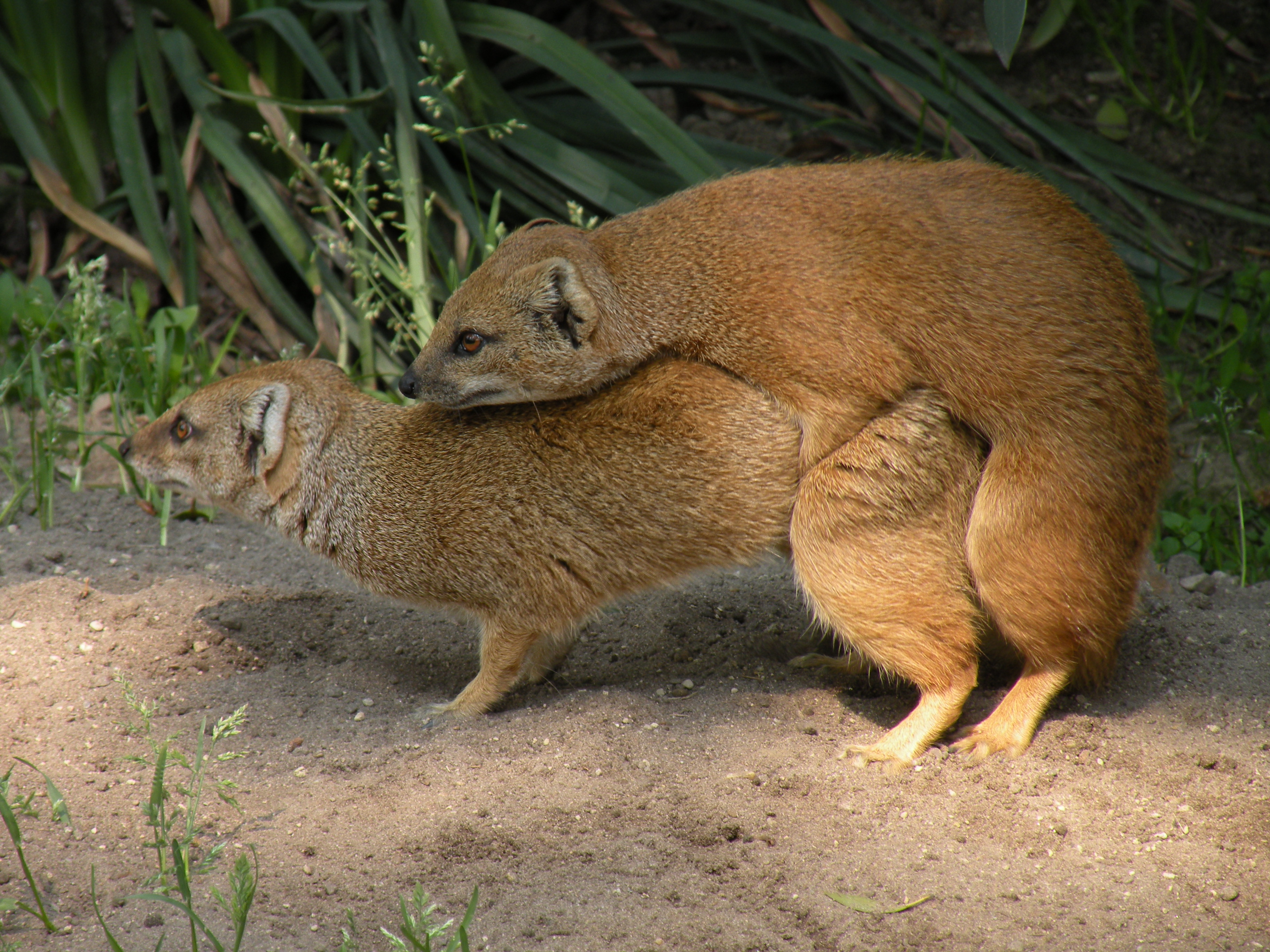 Yellow Mongoose Cynictis penicillata mating in Diergaarde Blijdorp (Rotterdam Zoo)